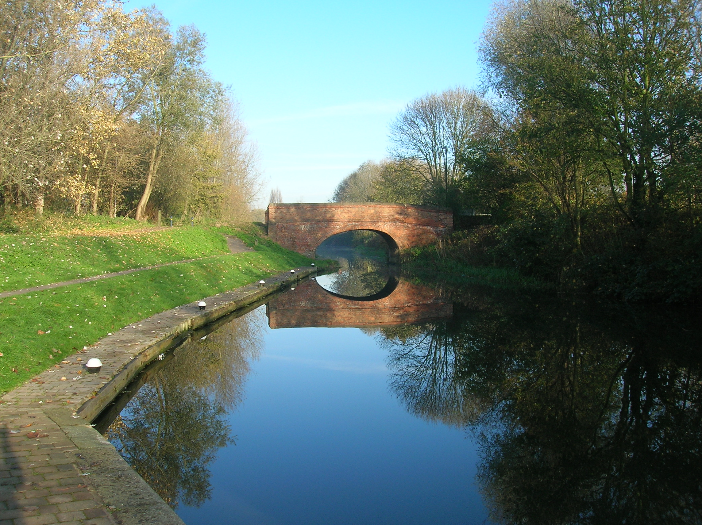 Bridge over Grand Union Canal at Aylestone Meadows, Leicester